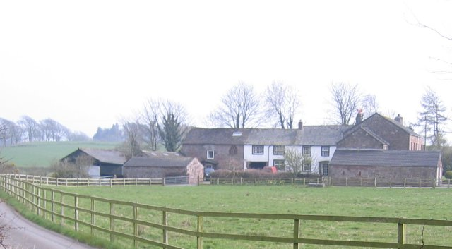 Haverigg Moorside. A nicely fenced lane.